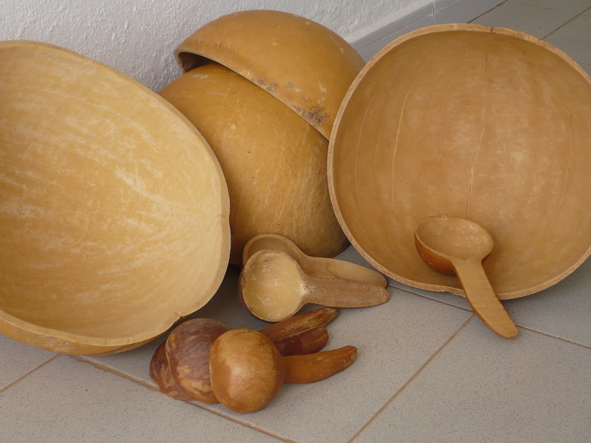 Collection of bowls and spoons made of bottle gourd (Lagenaria siceraria) (Sikasso, Mali 2007)